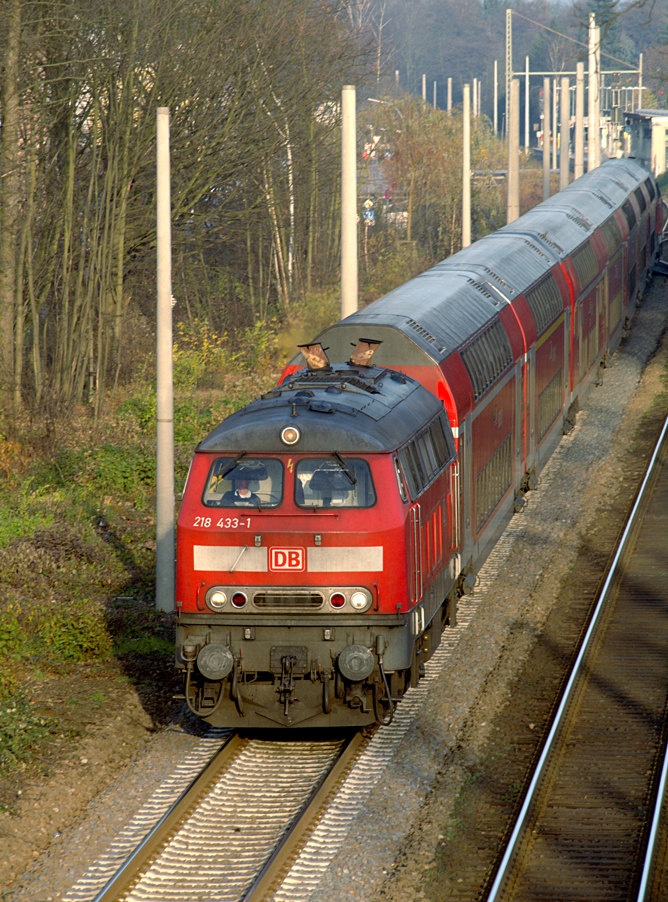 German 218 433-1 (ex 210 433-?) diesel locomotive with a sprinter train Lübeck → Hamburg comprised of double-decker cars. By the time this photo was taken (November 2007), the railway Hamburg ↔ Lübeck was undergoing electrification (see the catenary masts on the photo!), which made the 218 get replaced by Class 112 electric locomotives by late 2008.